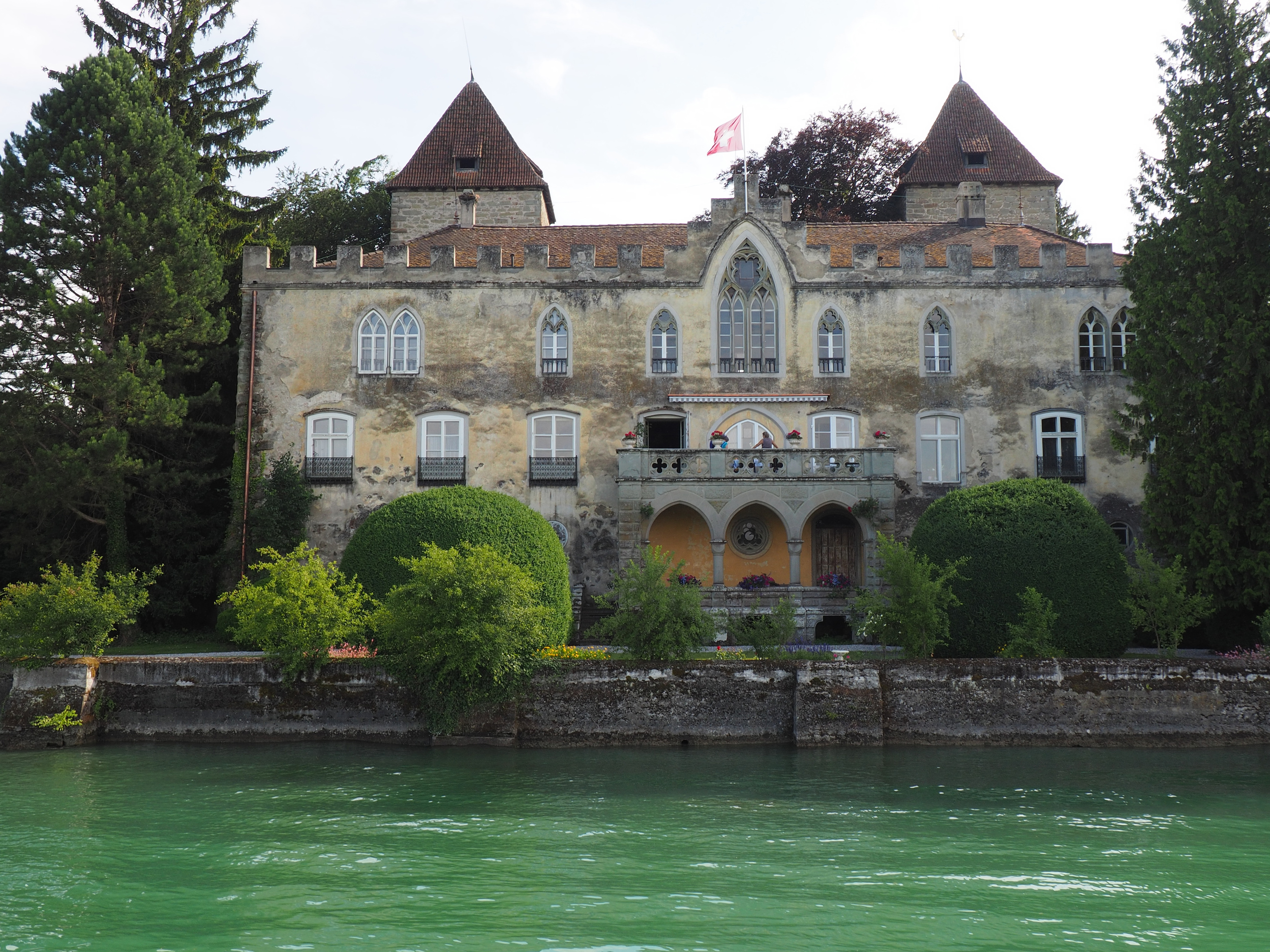 Castle in Gottlieben seen from Seerhein. The Bohemian reformer Jan Hus was several months imprisoned here during the Council of Constance.